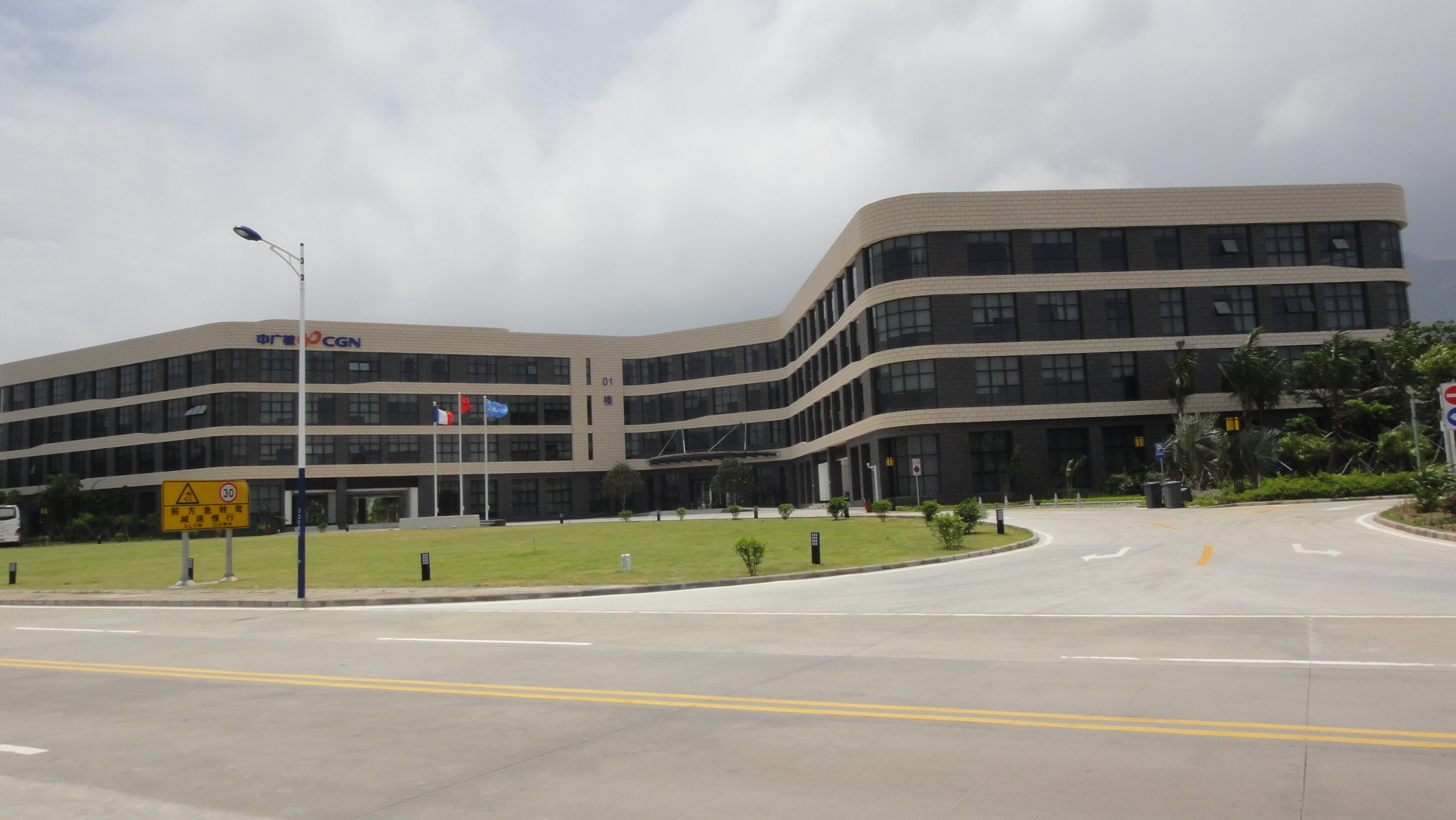 Office building of Taishan nuclear power plant